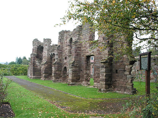 Ruins of Blackfriars Friary A religious house which was dissolved in 1538. Enter the rose garden via a wooden gate in Widemarsh Street near Coningsby Hospital to see the ruins and the preaching cross. The ruins are the refectory and the Prior's House with an approximate date of 1322.